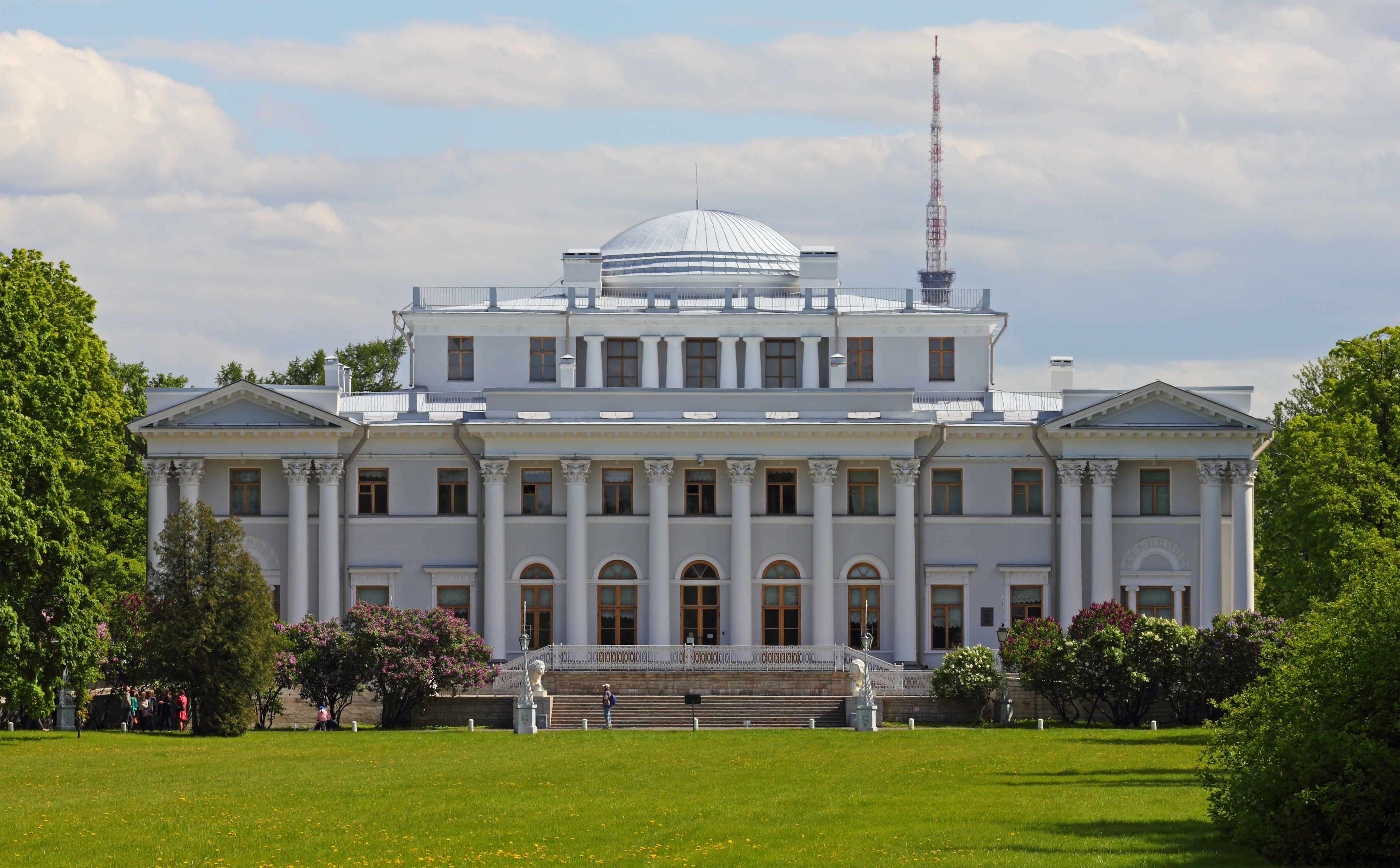 Saint Petersburg, Russia. Elagin Palace.